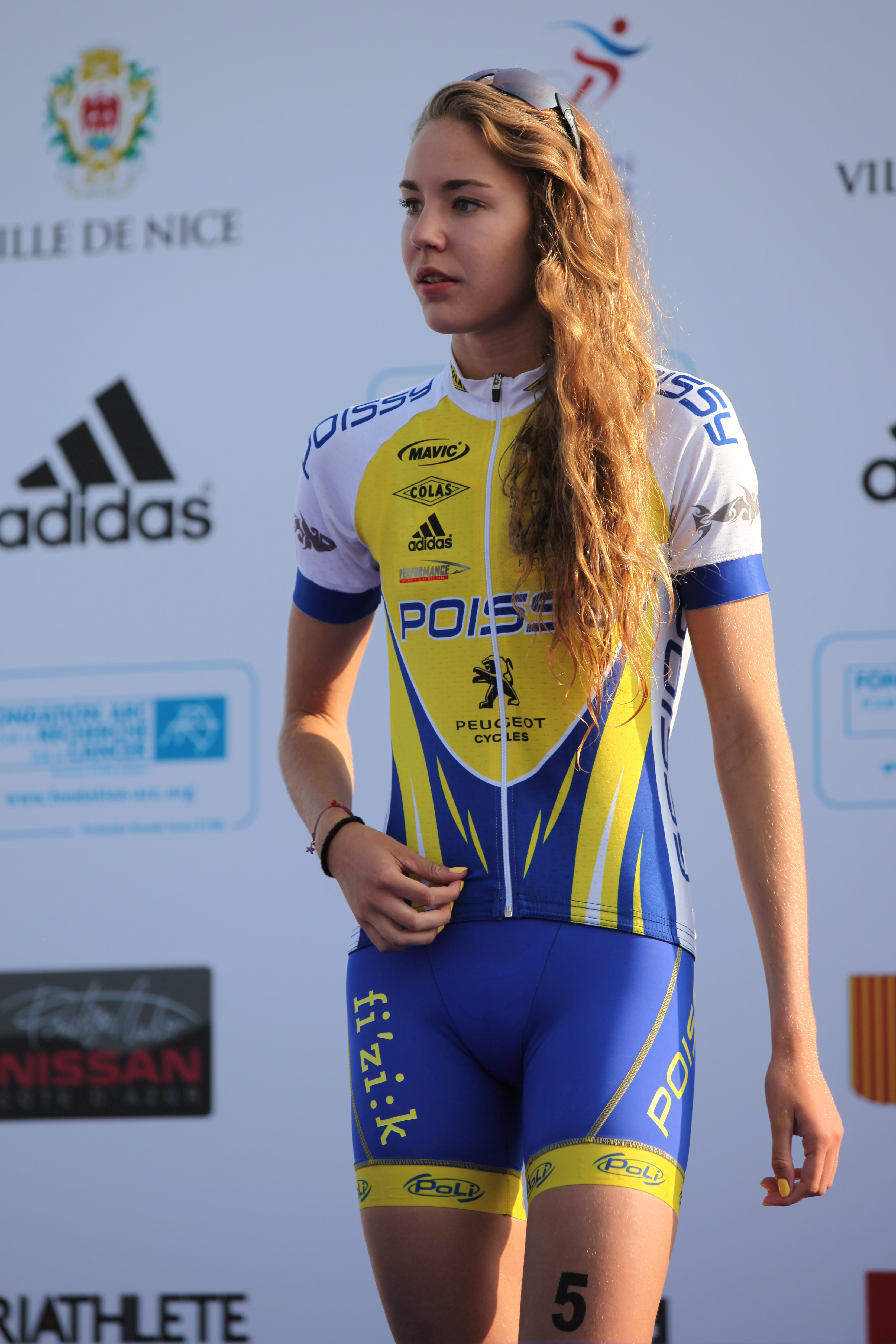 Cassandre Beaugrand, winner of the French Grand Prix triathlon in Nice, French elite champion 2014 and club mastership winner.